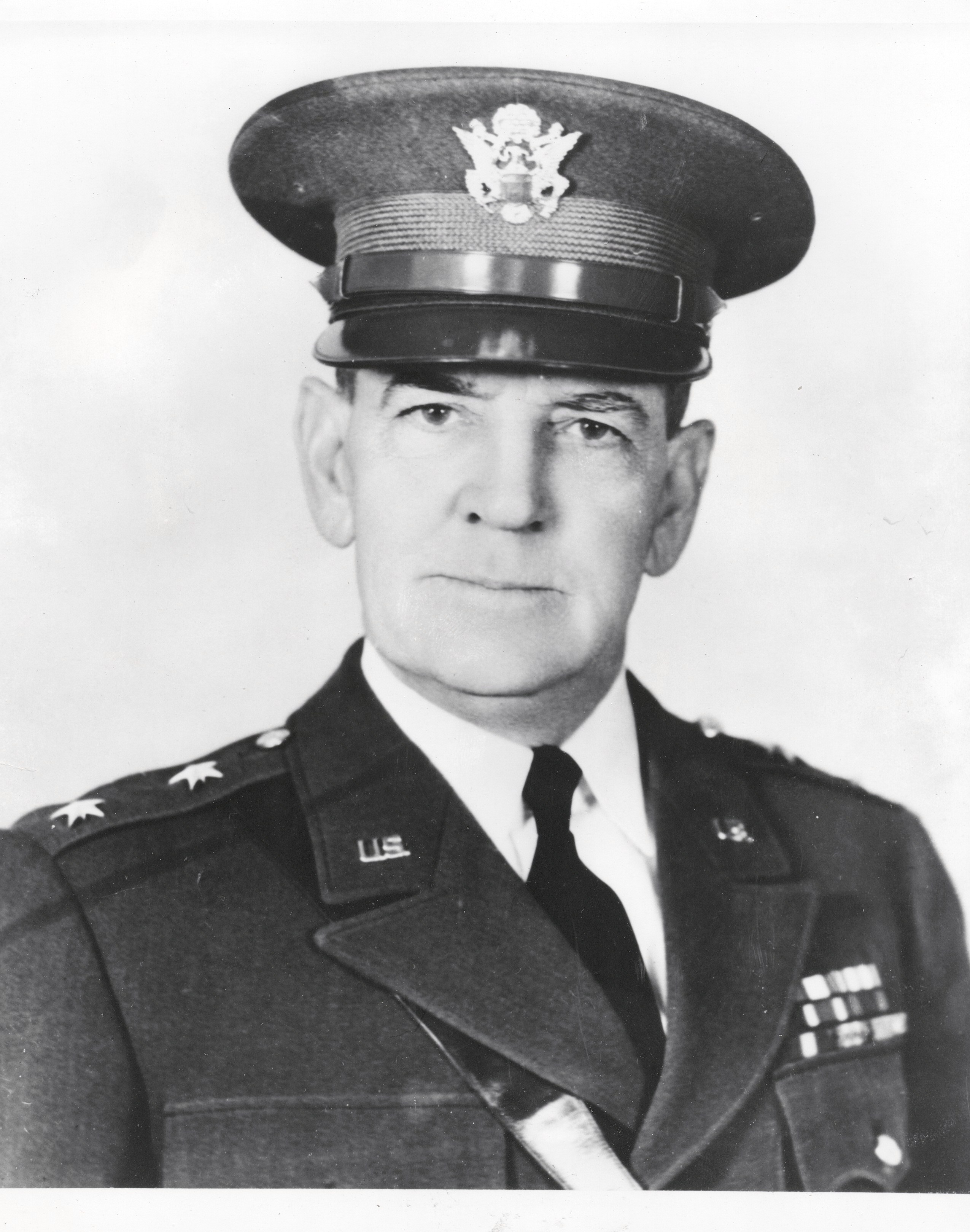 This is a photograph of U.S. Army Major General Walter C. Sweeney, Sr taken circa 1938-1940.